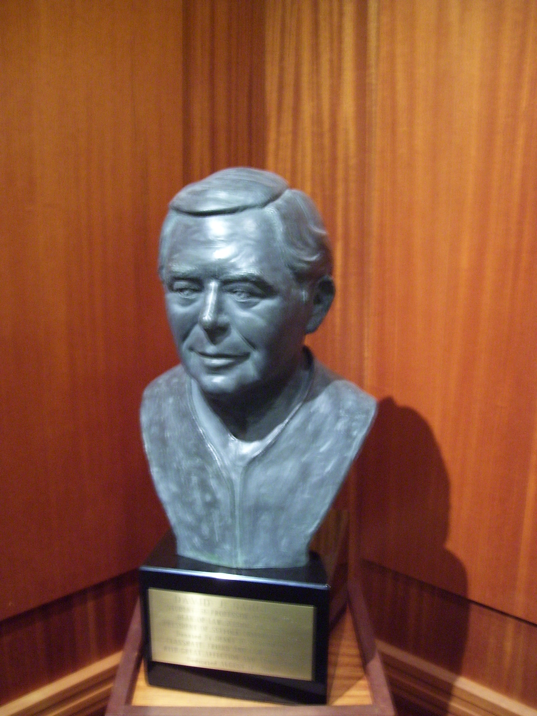 My 2009 photo of a bust of David Sargent of Suffolk University.